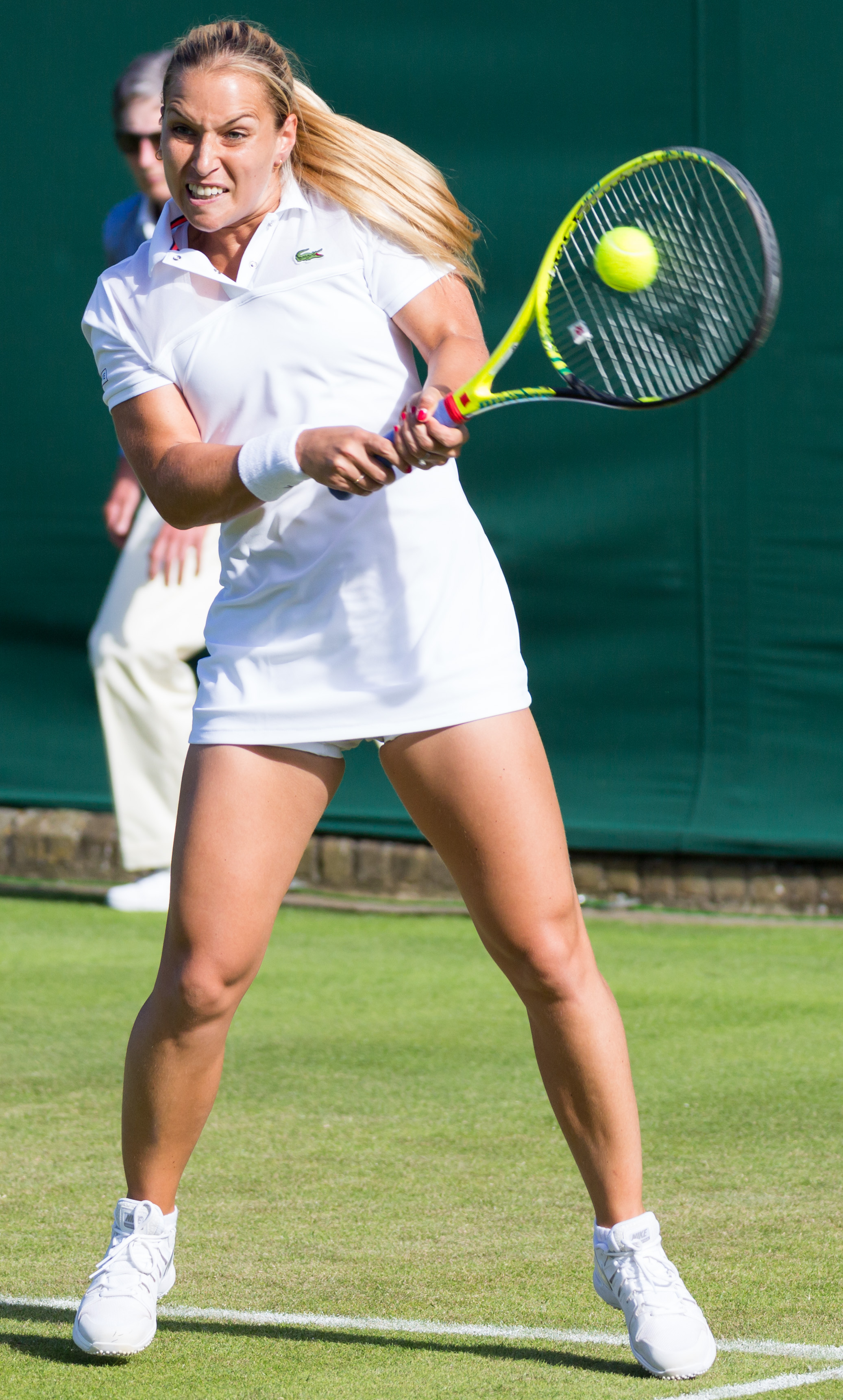 Dominika Cibulková competing in the first round of the 2015 Wimbledon Championships.